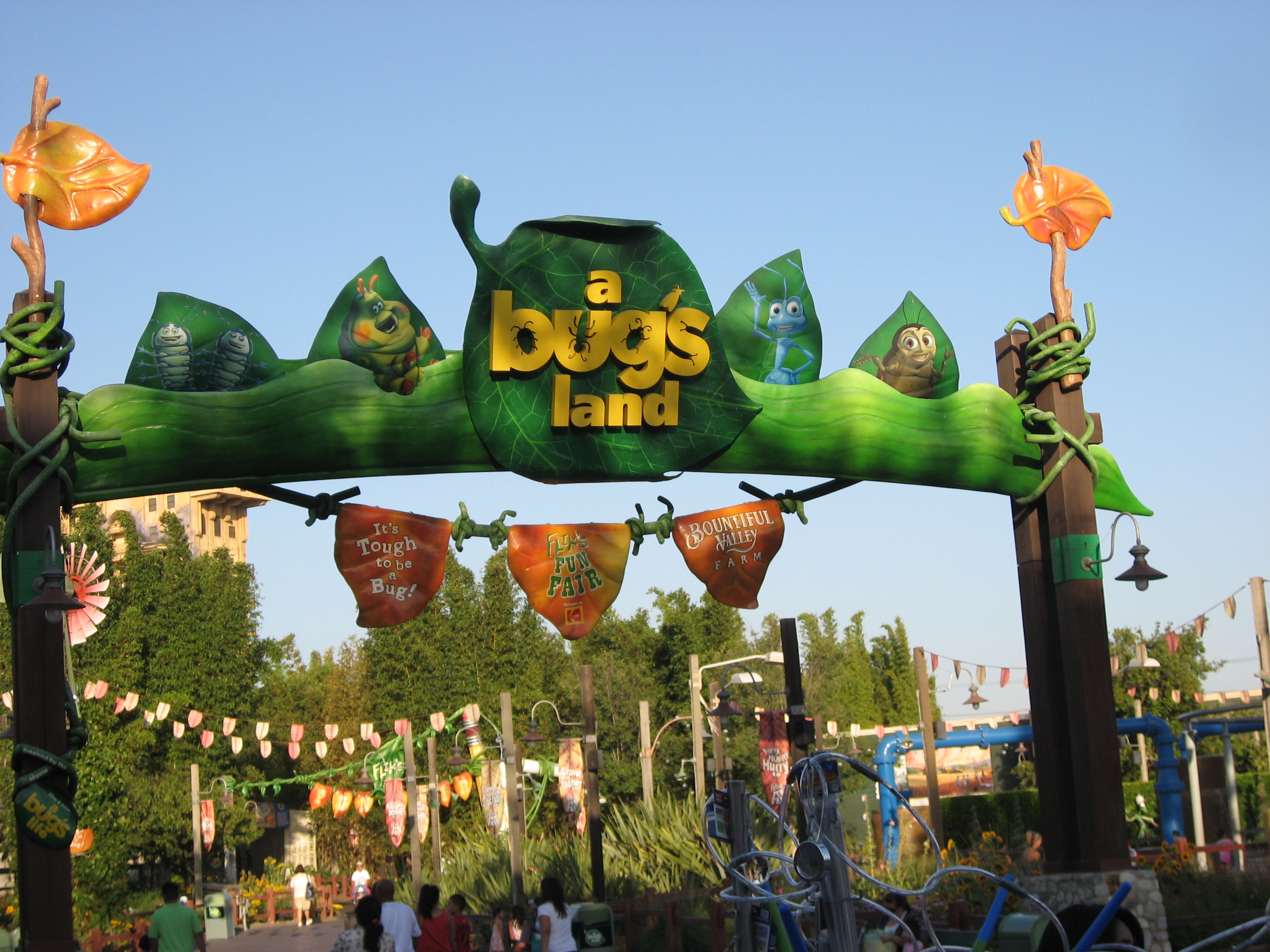 a bug's land sign in Disney's California Adventure.